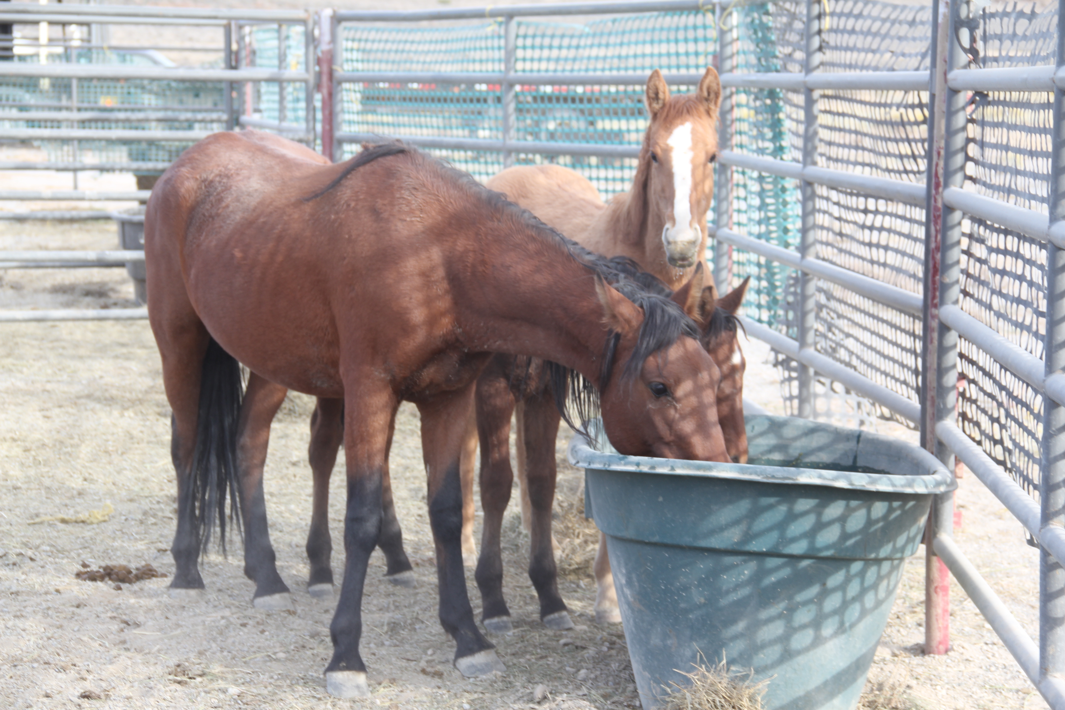 These wild horses are drinking water at temporary holding after being removed from the Antelope HMA, Oct. 5. These wild horses are being removed because of lack of forage and drought.